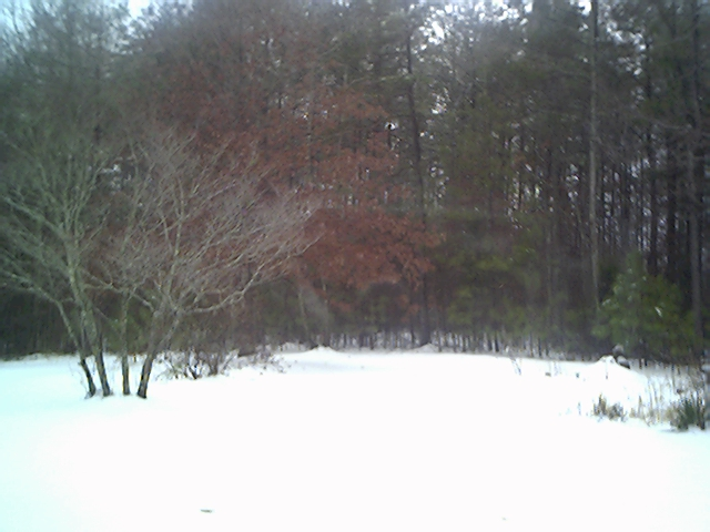 There seems to be even more snow and ice on Tuesday, the 11th of January 2011! It melted off the trees and refroze on the ground.